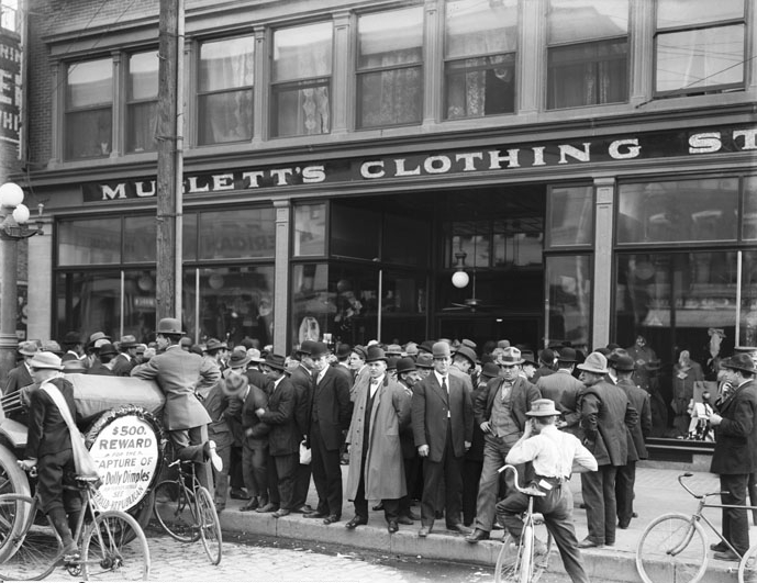 Caption: Crowd at Mullett's Store Watching For Dolly Dimples, 28 October 1909. Published in Salt Lake Herald-Republican, 1909. Approximate location: 41–47 West 200 South, Salt Lake City